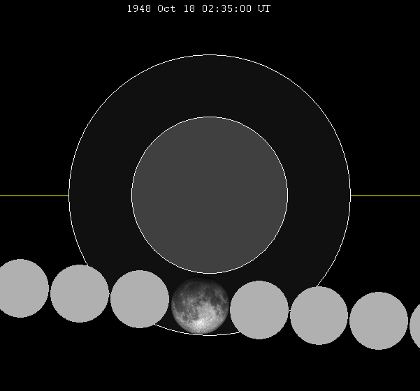 October 1948 lunar eclipse chart of moon's penumbral lunar eclipse path through the earth's shadow. thumb